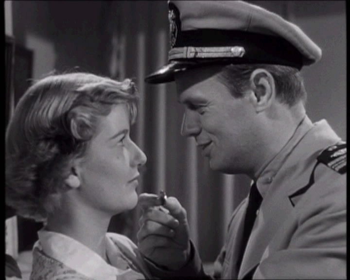 Panic in the Streets is a black and white, 96-minute film directed by Elia Kazan and released in 1950 by 20th Century Fox. It is film noir semidocumentary shot exclusively on location in New Orleans, Louisiana. Barbara Bel Geddes and Richard Widmark.